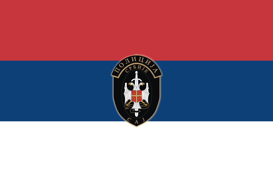 Flag of SAJ (Special Anti-terrorist Unit)